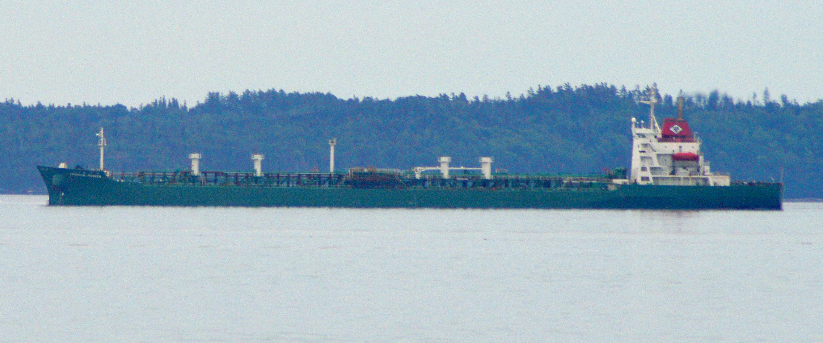 M/V Chemical Pioneer at [Searsport, Maine